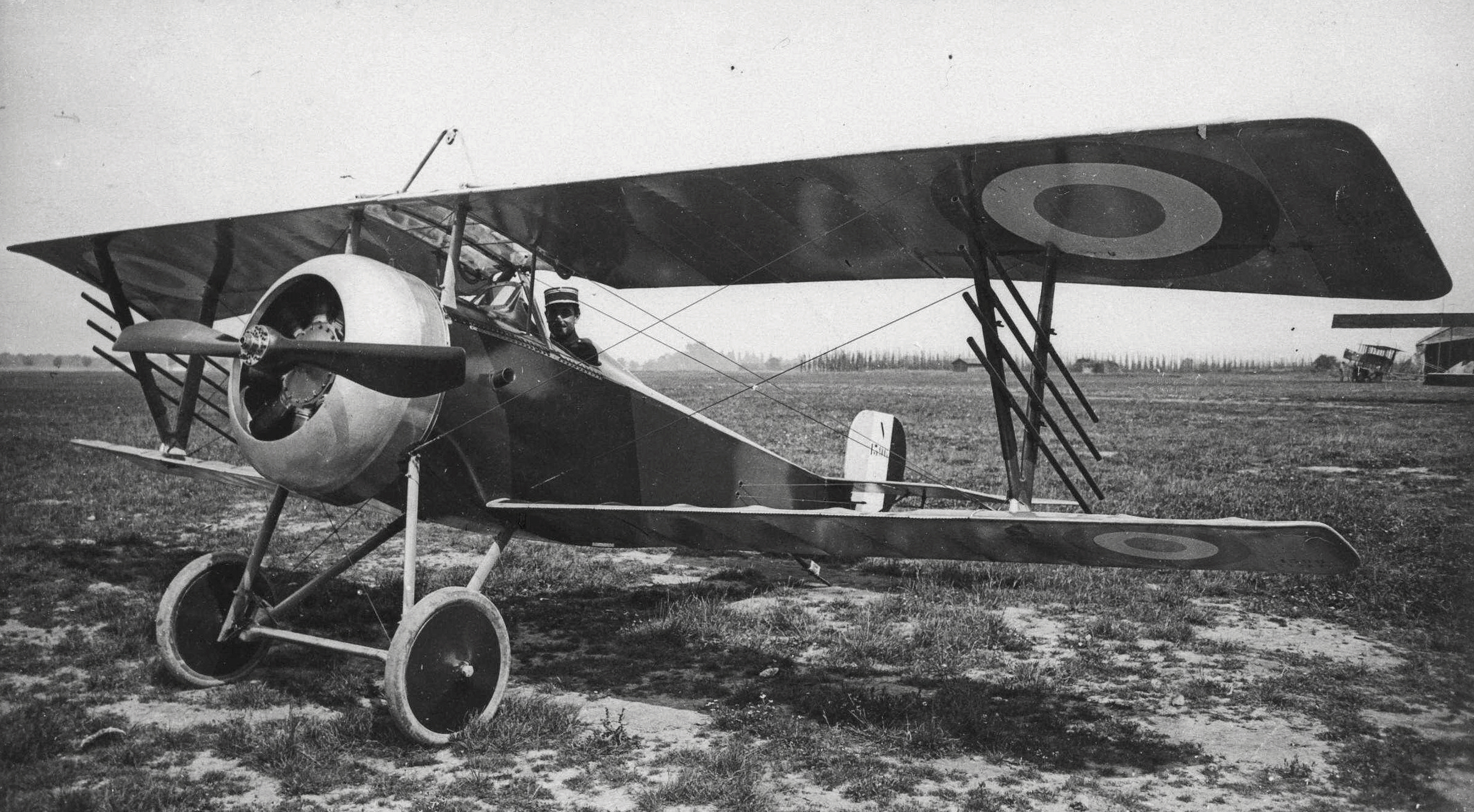 Lt. de Richemont's camouflaged Nieuport 17 with le Prieur rocket rails at Toul on 19 July, 1916